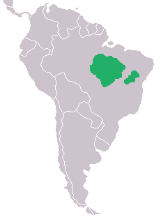 Range map